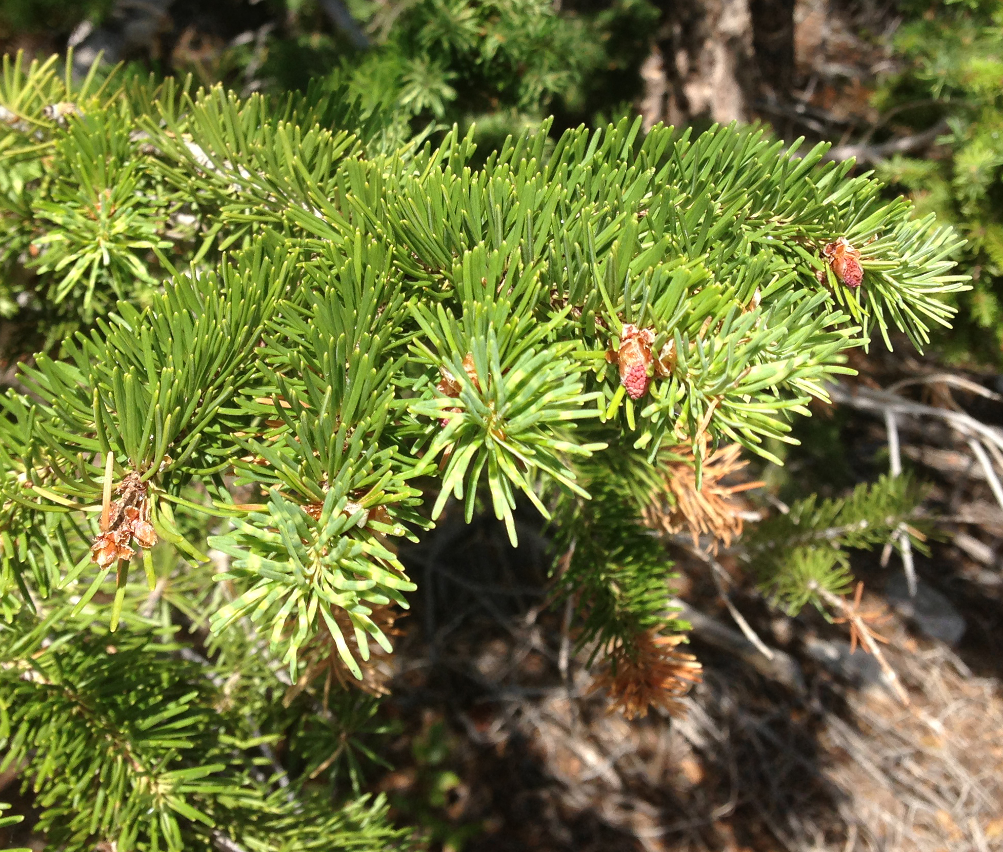 Pseudotsuga menziesii (Douglas fir) foliage along Wheeler Peak Scenic Drive in Great Basin National Park, Nevada